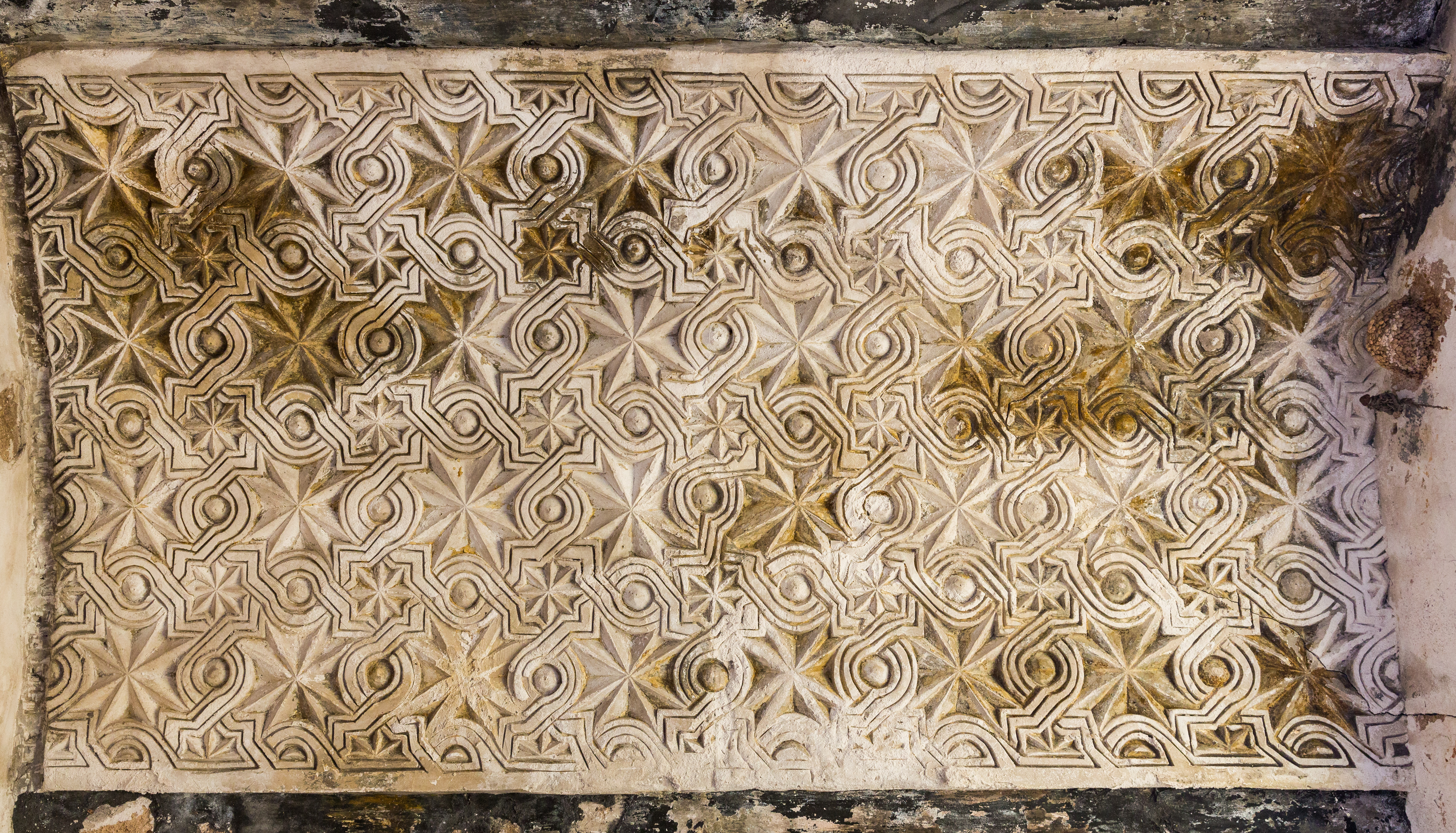 Church of the Lady of the Orchard, Villanueva de Jalón, Zaragoza, Spain